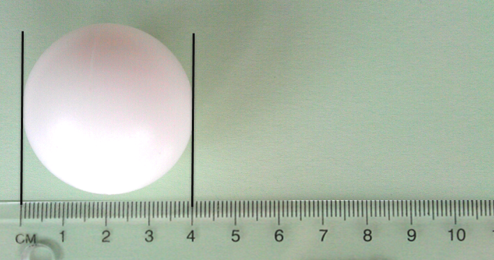 Diameter of a ping-pong ball is 4 cm